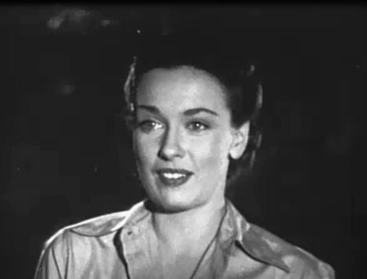 Low resolution screenshot of Patricia Morison as Jean Preston in the American public domain film Queen of the Amazons (1947).